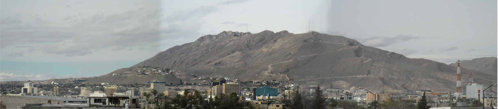 juarezelpaso